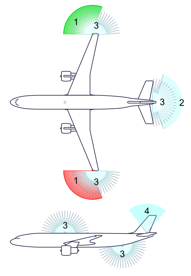 Jet-liner's lights #1 (1) Navigation Lights (2) Aft Light (3) Anti-Colision Strobe lights (4)Logo Light